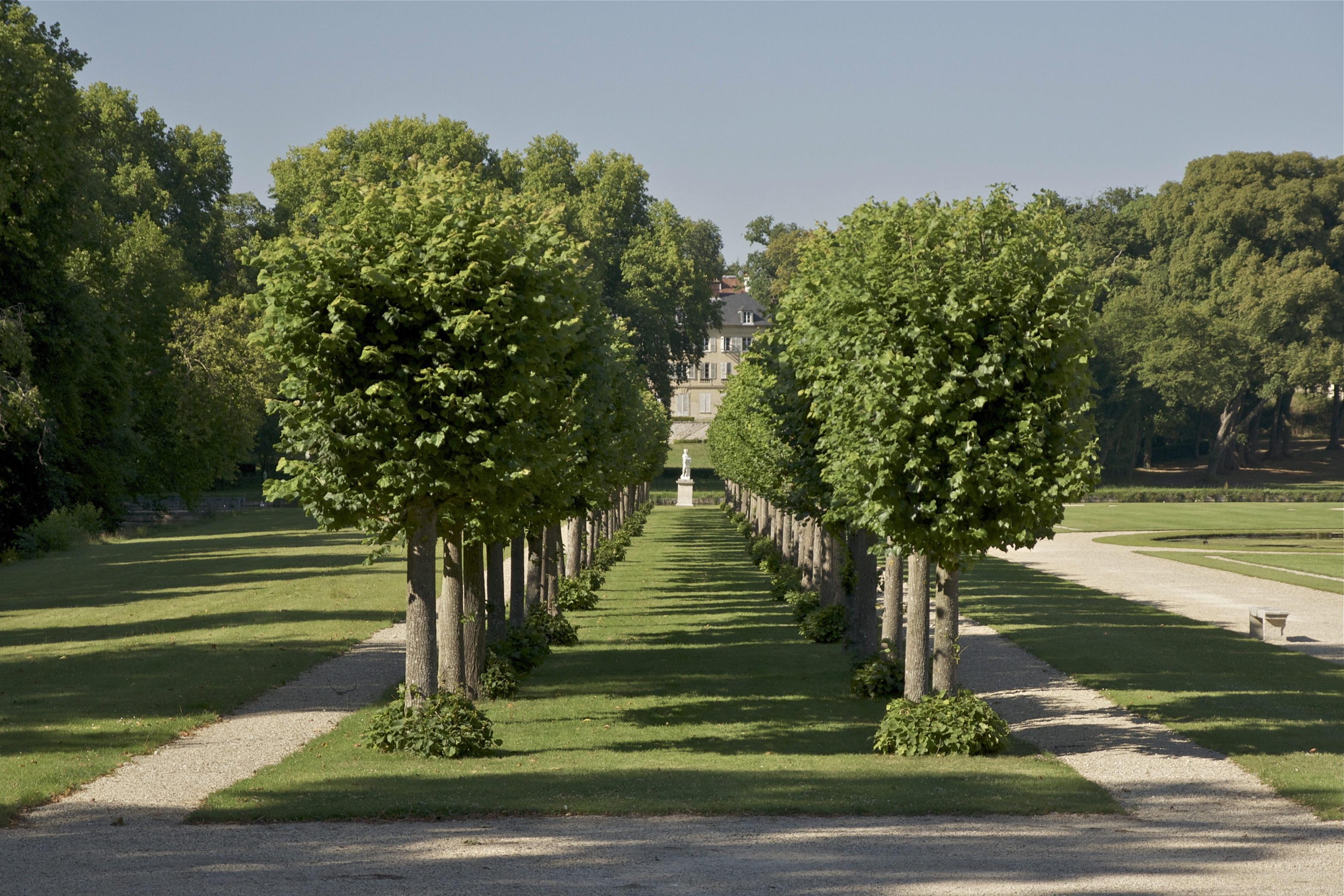 One of the two "philosopher's paths" in the park of the Château de Chantilly.